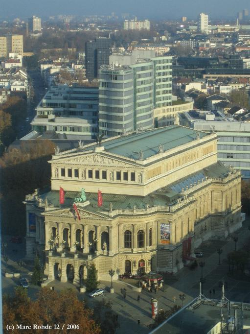 Alte Oper, Frankfurt, Germany